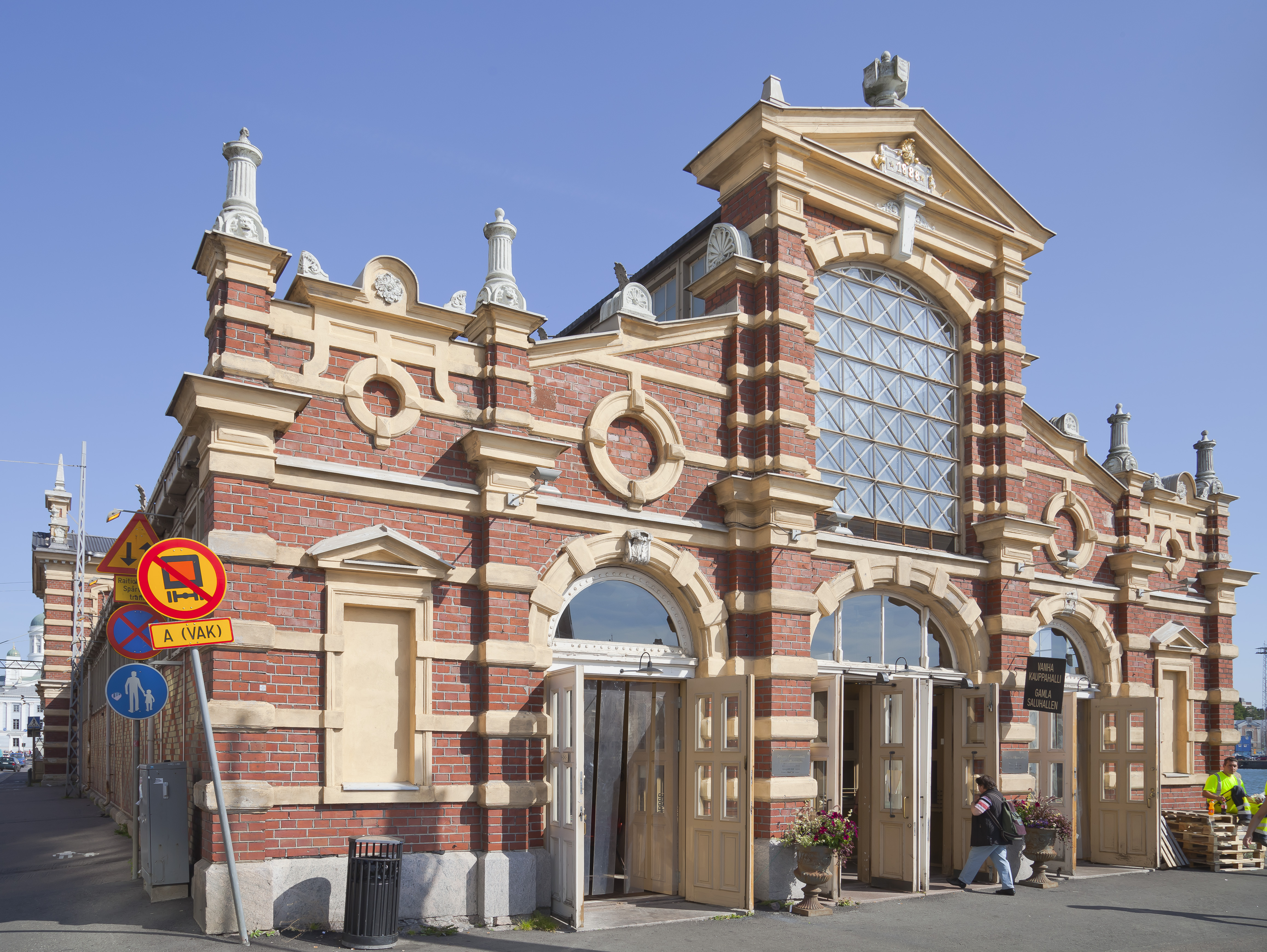 Helsinki Old Market Hall, Finland